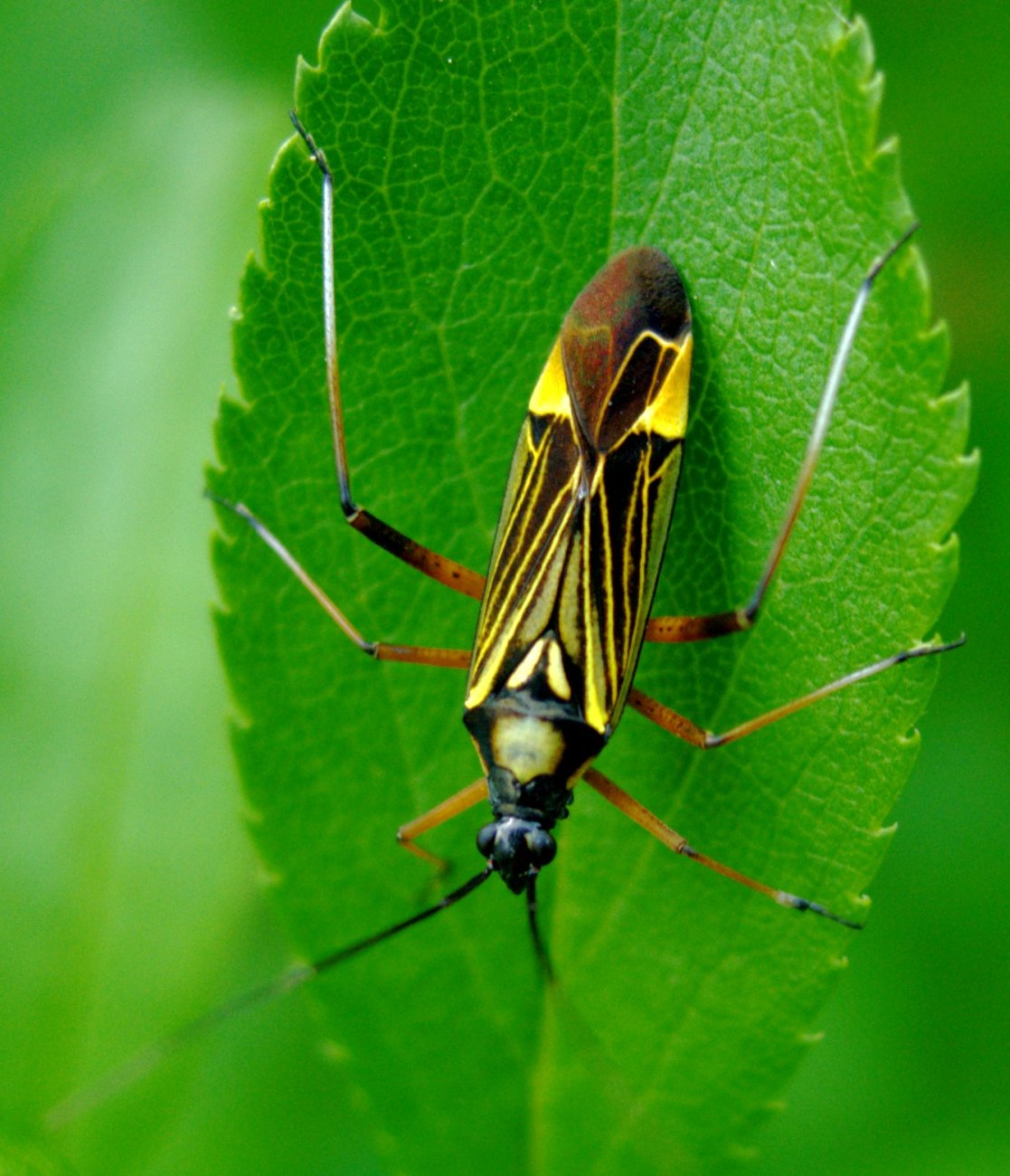 Name: Miris striatus. Family: Miridae. Location. Münster, NRW, Germany